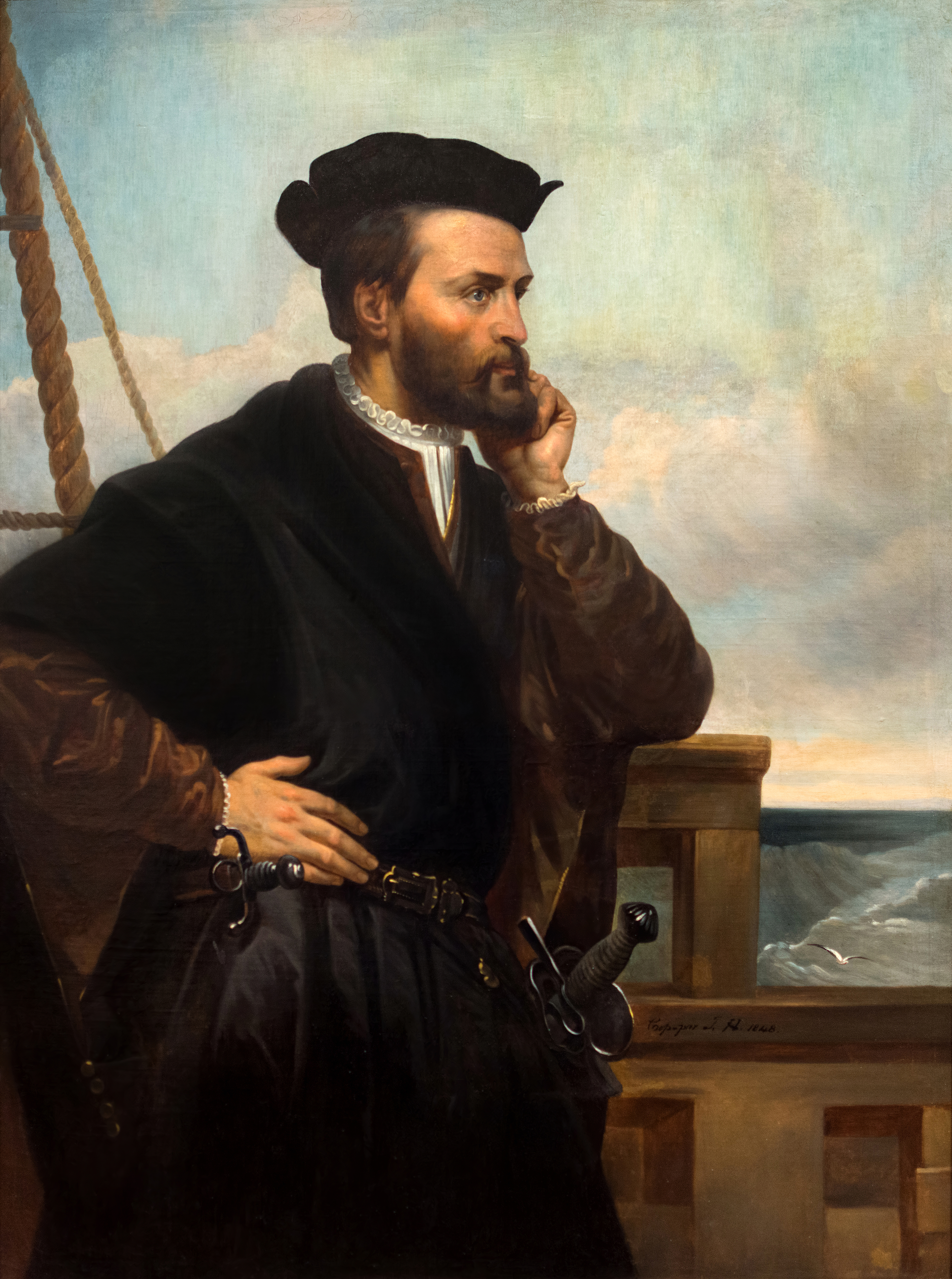 There are no known paintings of Cartier that were created during his lifetime.